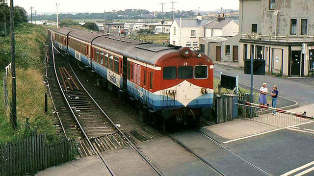 "Sealink" train, Castlerock. See 1088463. Well away from the Larne line the "Sealink" set entering Castlerock station with the 12.02 Coleraine - Londonderry "Derry Day" special.